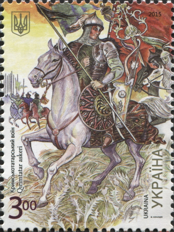 Stamp of Ukraine, 2015